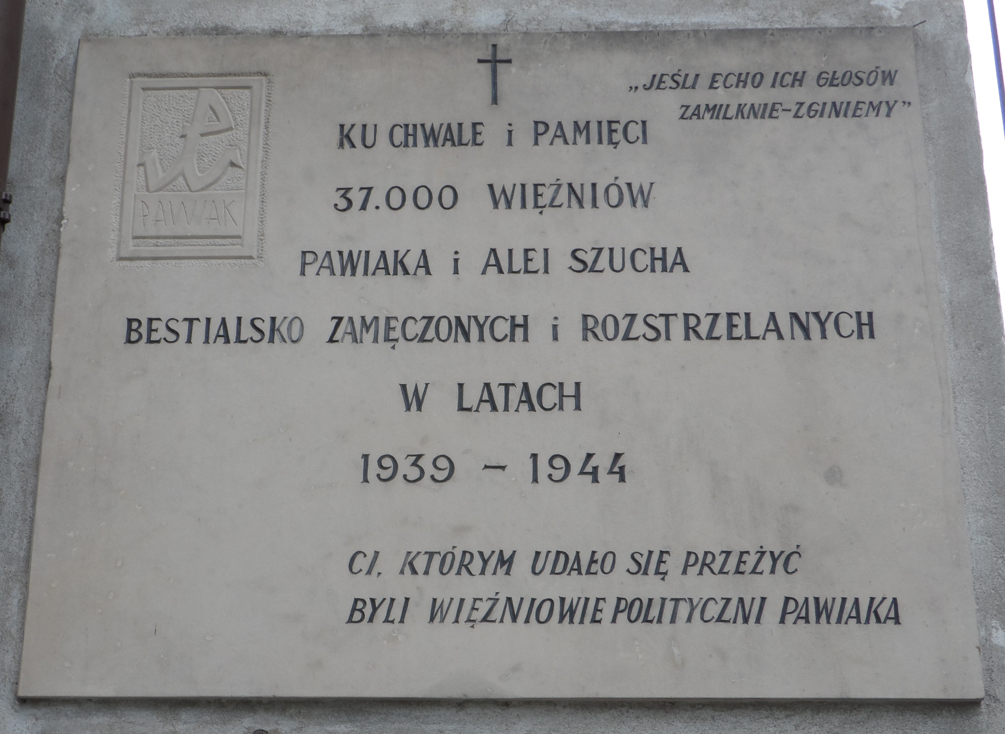 Plaque at the wall of the St. Stanislaus Kostka Chuch in Warsaw commemorating 37 000 inmates of Pawiak prison in Warsaw murdered by Nazi-German occupants in 1939–1944.